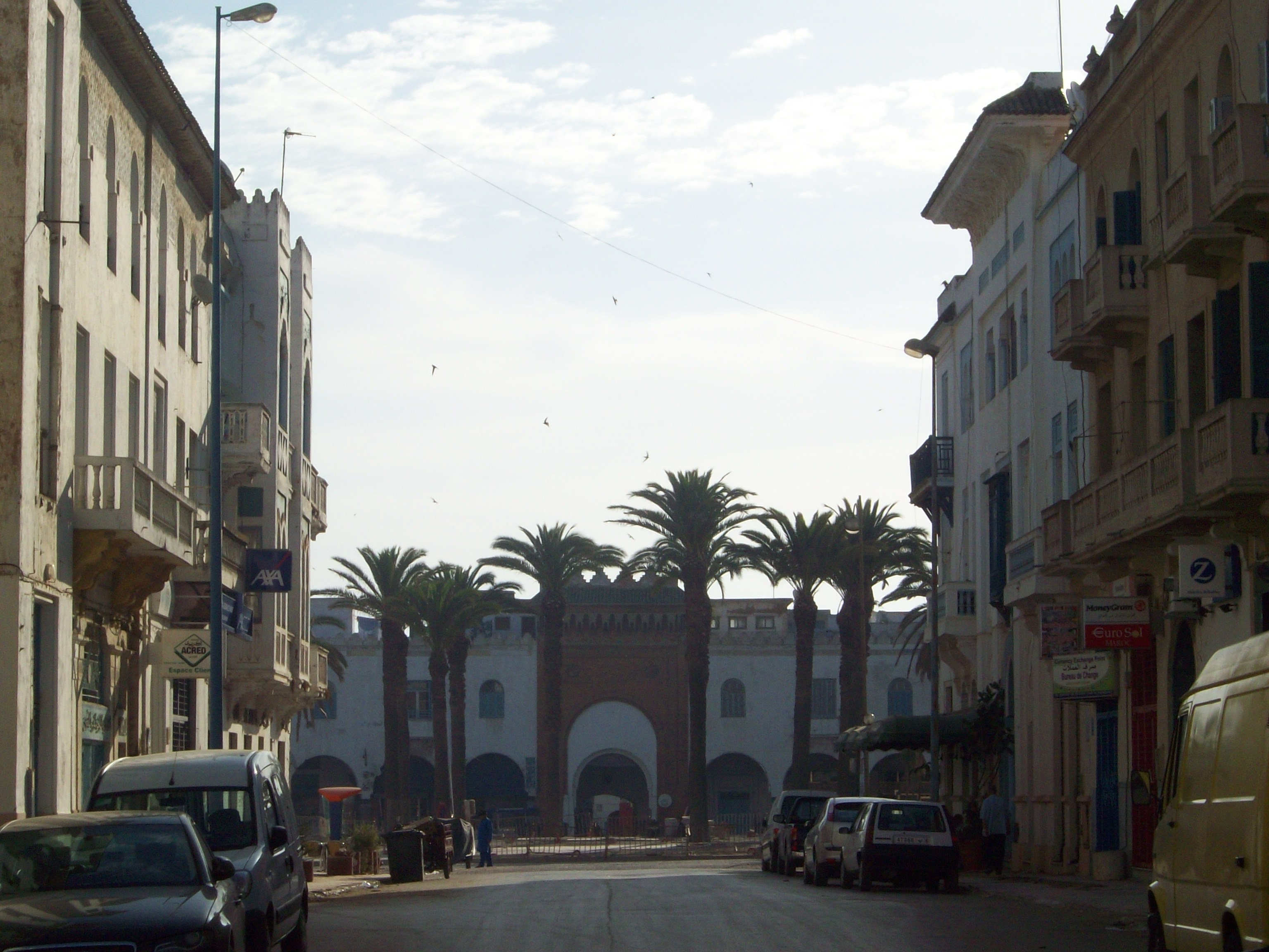 Plaza de Espana, Larache, Morocco